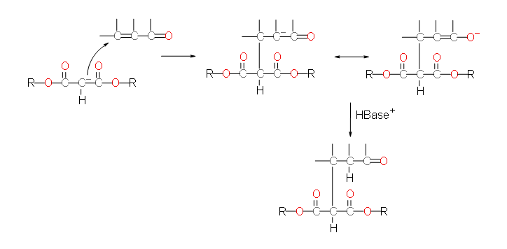 Mechanism of the Michael addition reaction